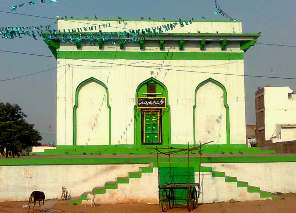 A Mosque at Amberpet market in Hyderabad, Telangana